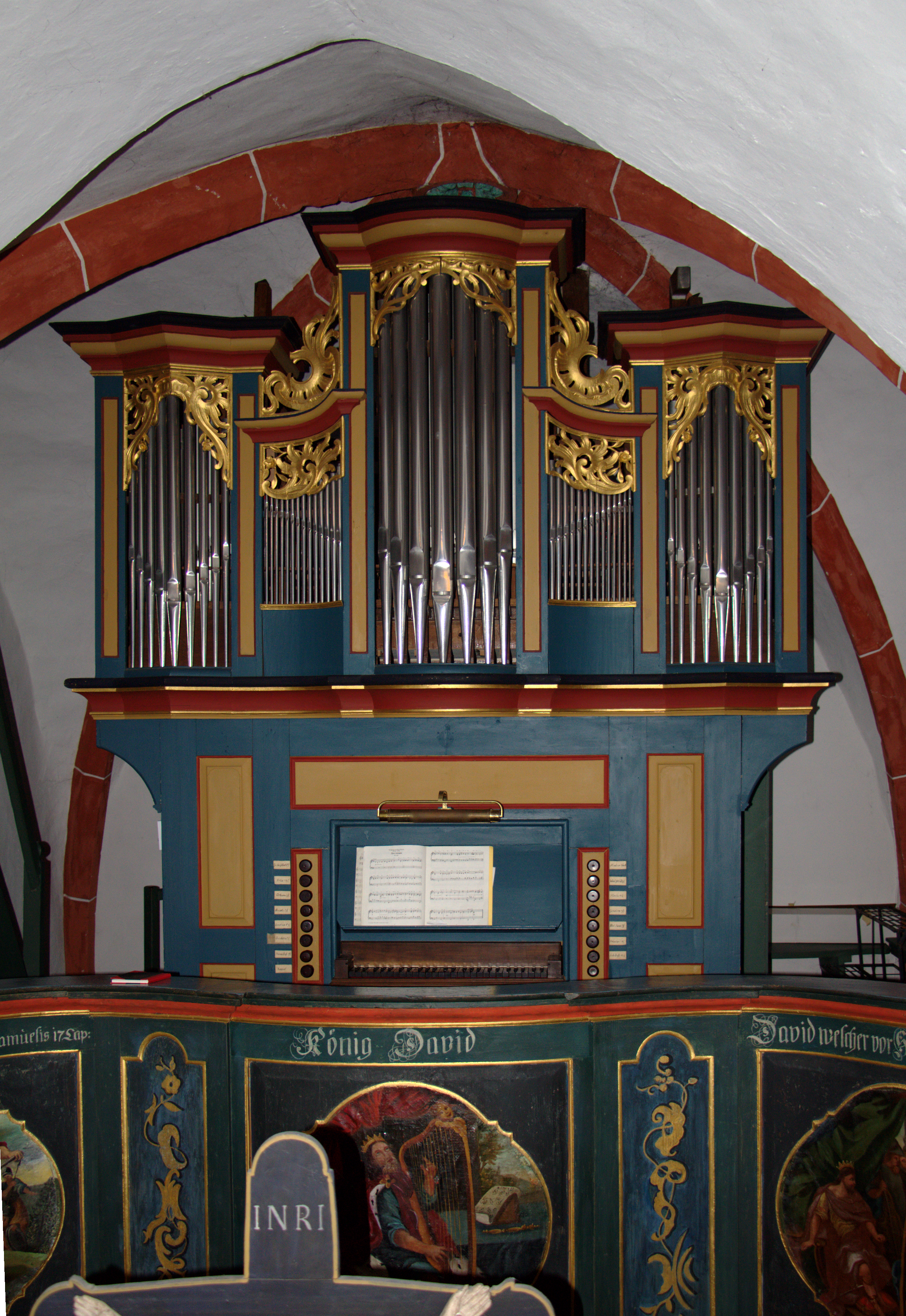 Protestant Church (Organ) in Freienseen, Laubach, Hessen, Germany